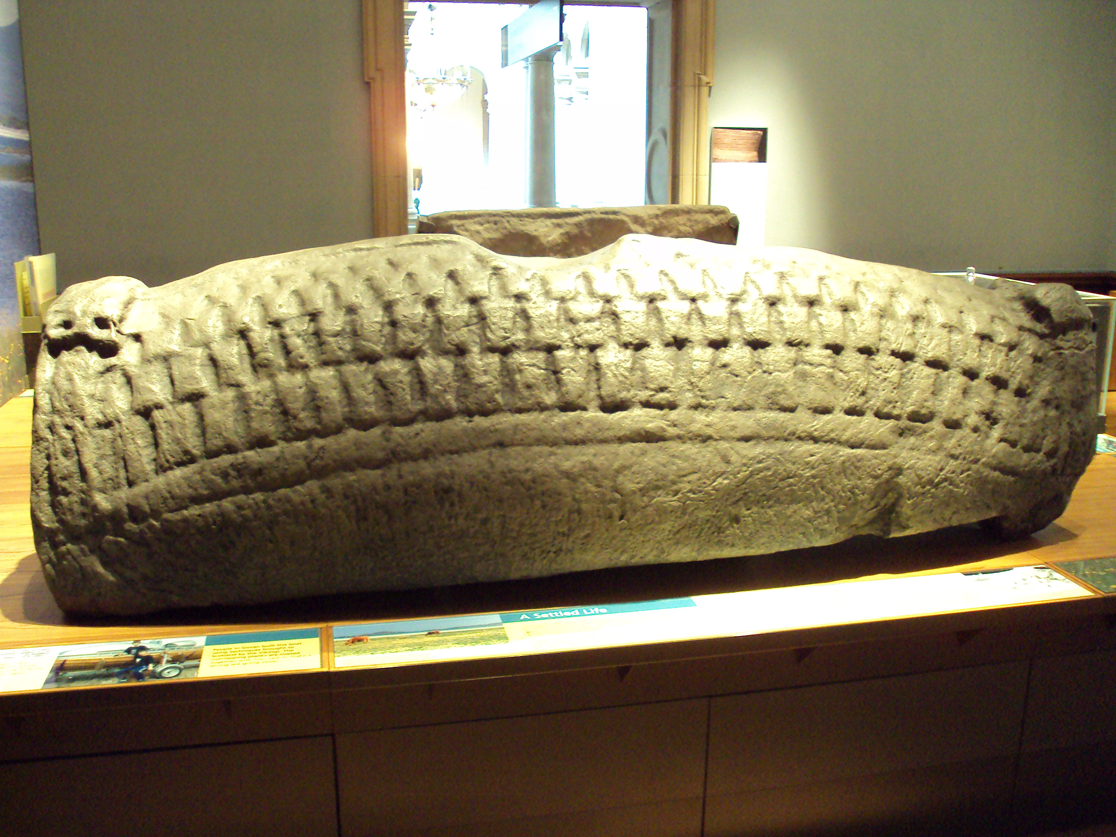 Cast of 10th century Viking hogback stone (grave marker) from Govan Old Parish Church in the Kelvingrove Art Gallery and Museum, Glasgow, Scotland.